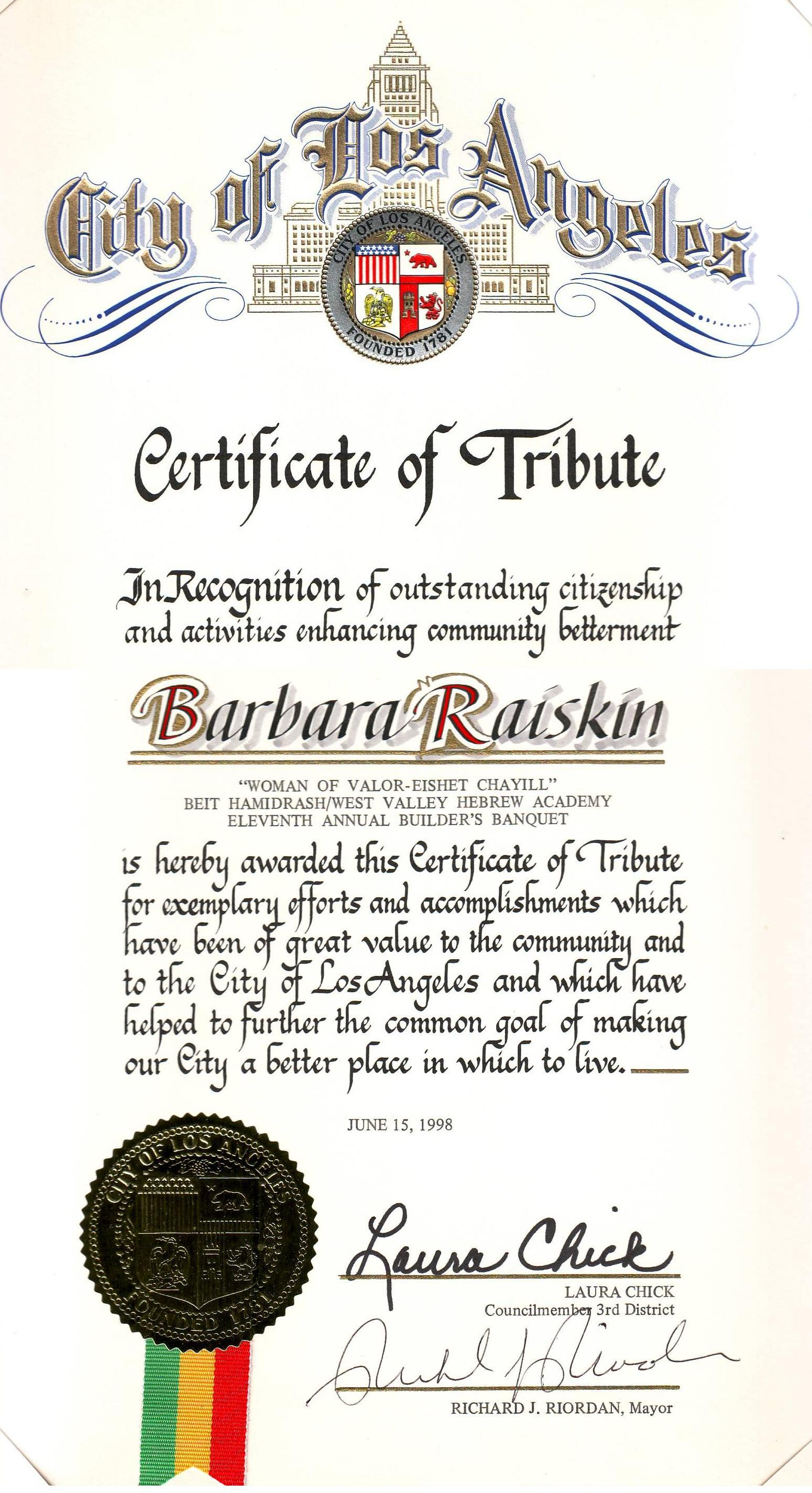 Woman of Valor Award 1998, Los Angeles